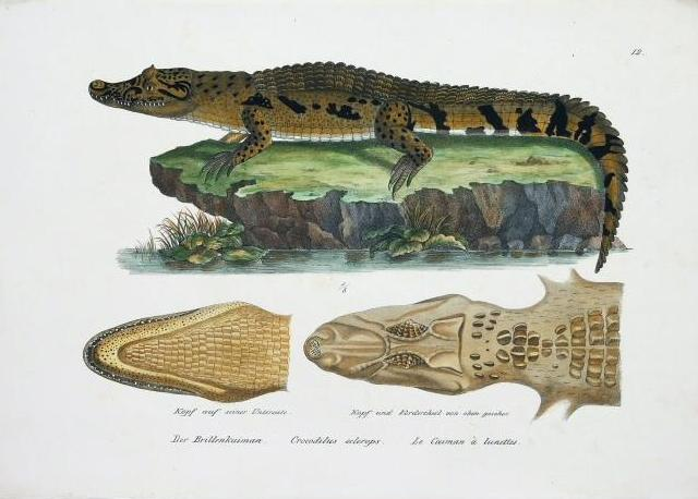 "Naturgeschichte und Abbildungen Der Reptilien", Crocodilus scleros